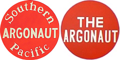 "Drumhead" logos from the Southern Pacific Railroad passenger train the Argonaut.